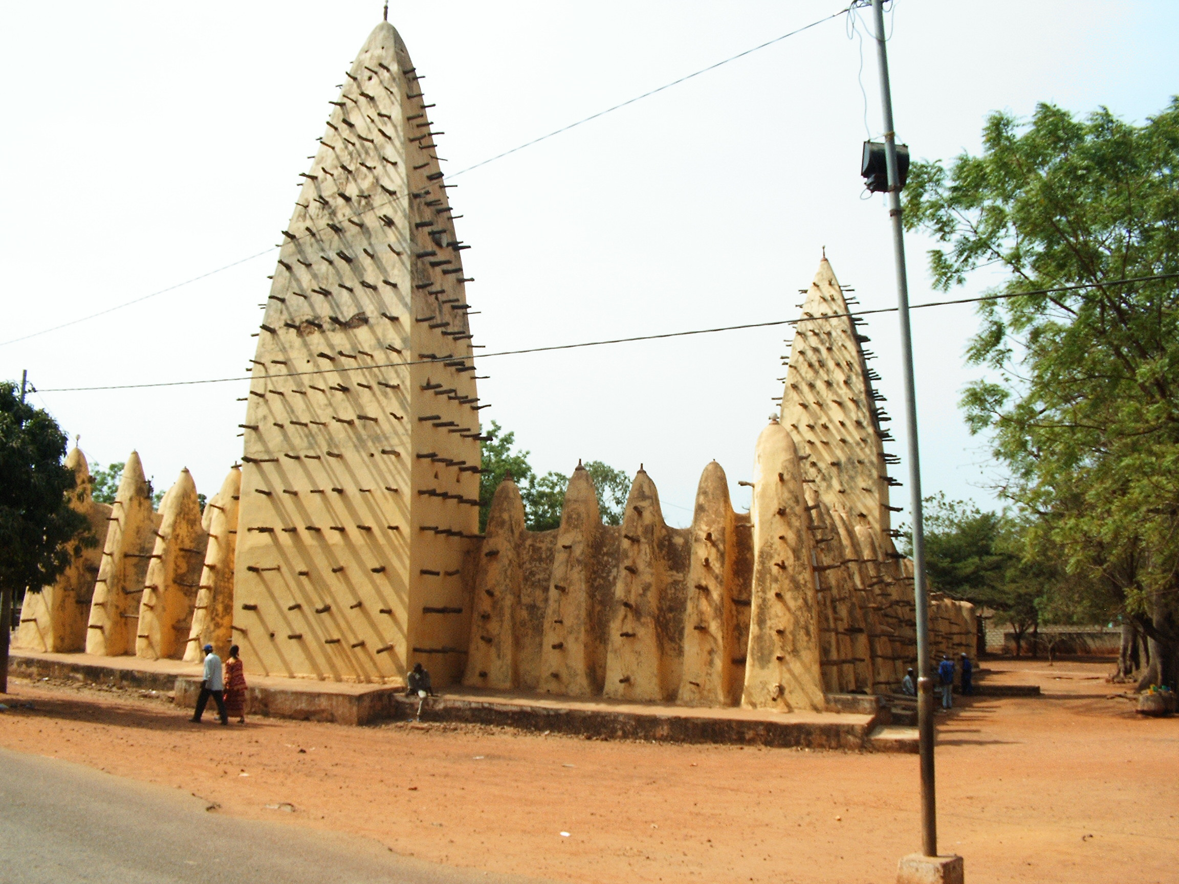 Grand Mosque in Bobo-Dioulasso, Burkina Faso picture taken by author